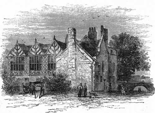 illustration of Stanley House, Watergate